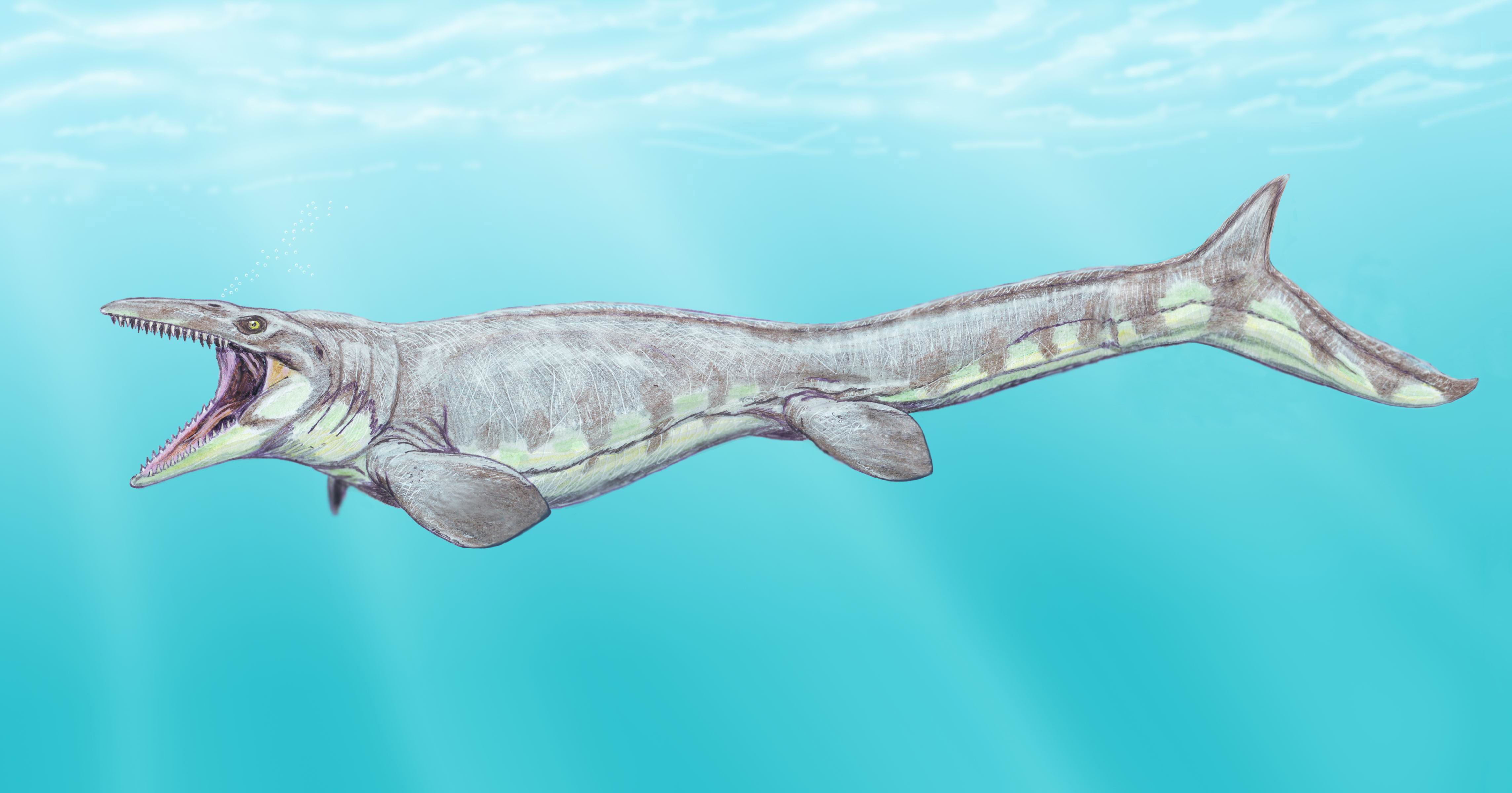 "Bunker Tylosaur" - Tylosaurus proriger